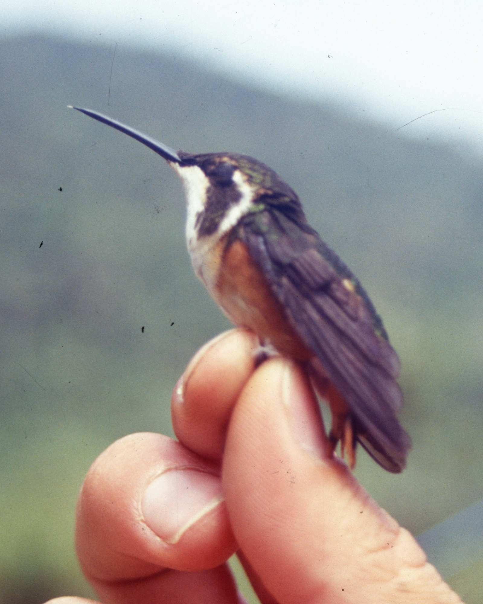 White-bellied Woodstar (Chaetocercus mulsanti) in Ecuador